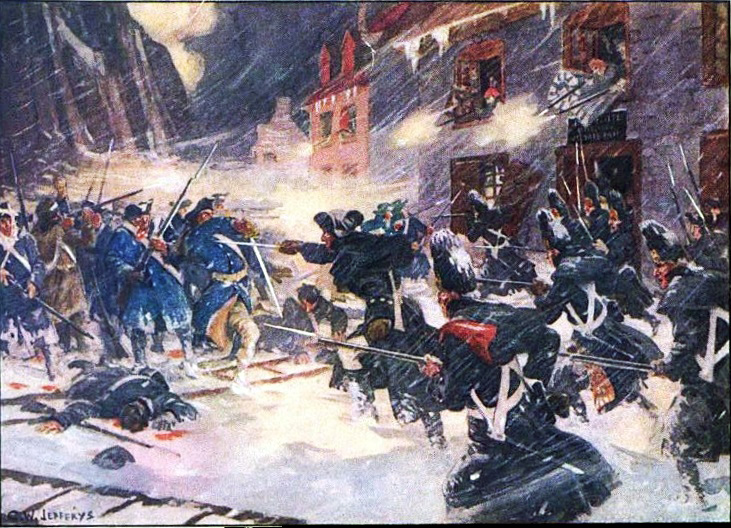 Arnold's column is shattered in fierce street fighting during the Battle of Quebec.